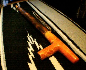 Made this image with my USB Camera